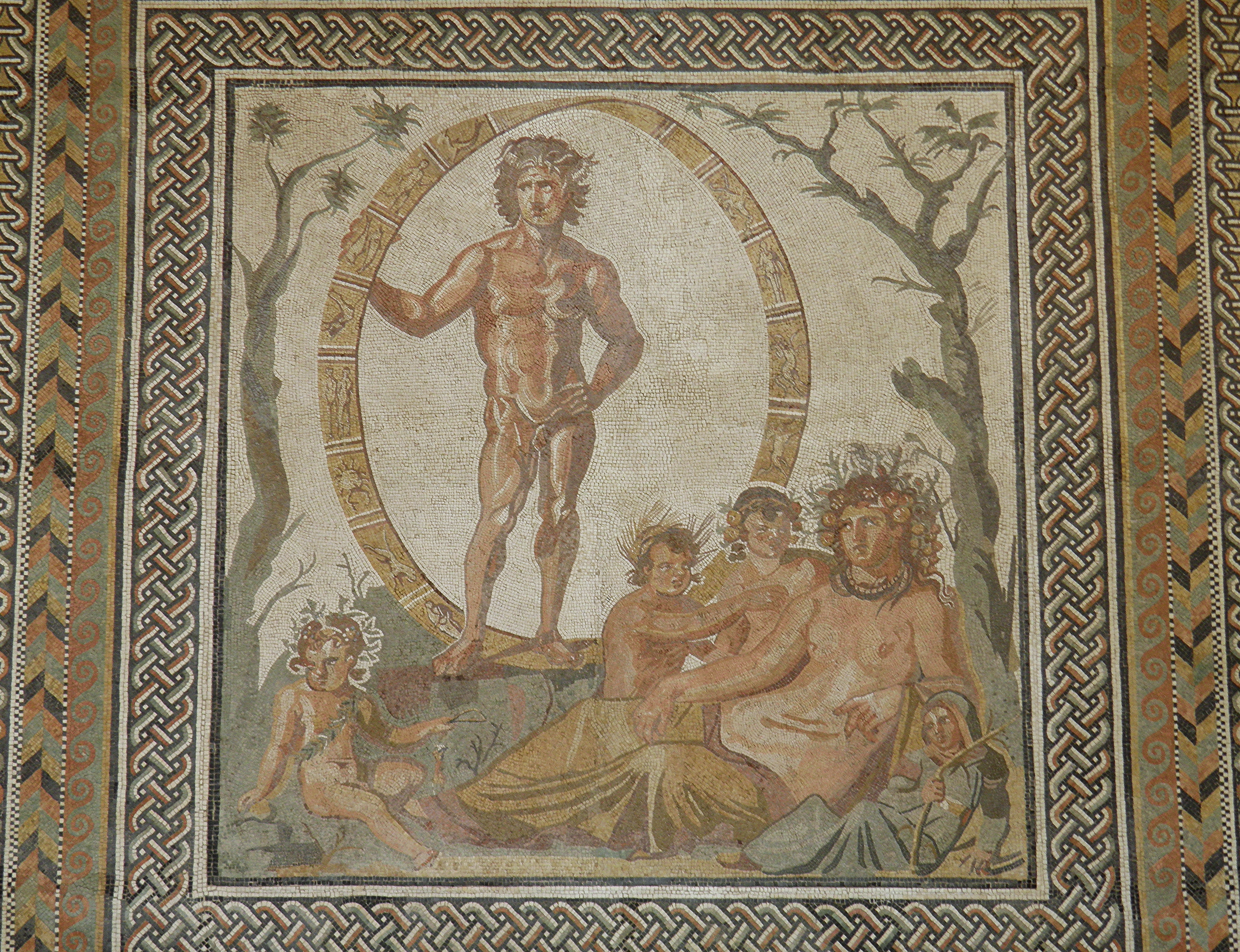 Aion, the god of eternity, is standing inside a celestial sphere decorated with zodiac signs, in between a green tree and a bare tree (summer and winter, respectively). Sitting in front of him is the mother-earth goddess, Tellus (the Roman counterpart of Gaia) with her four children, who possibly represent the four seasons.